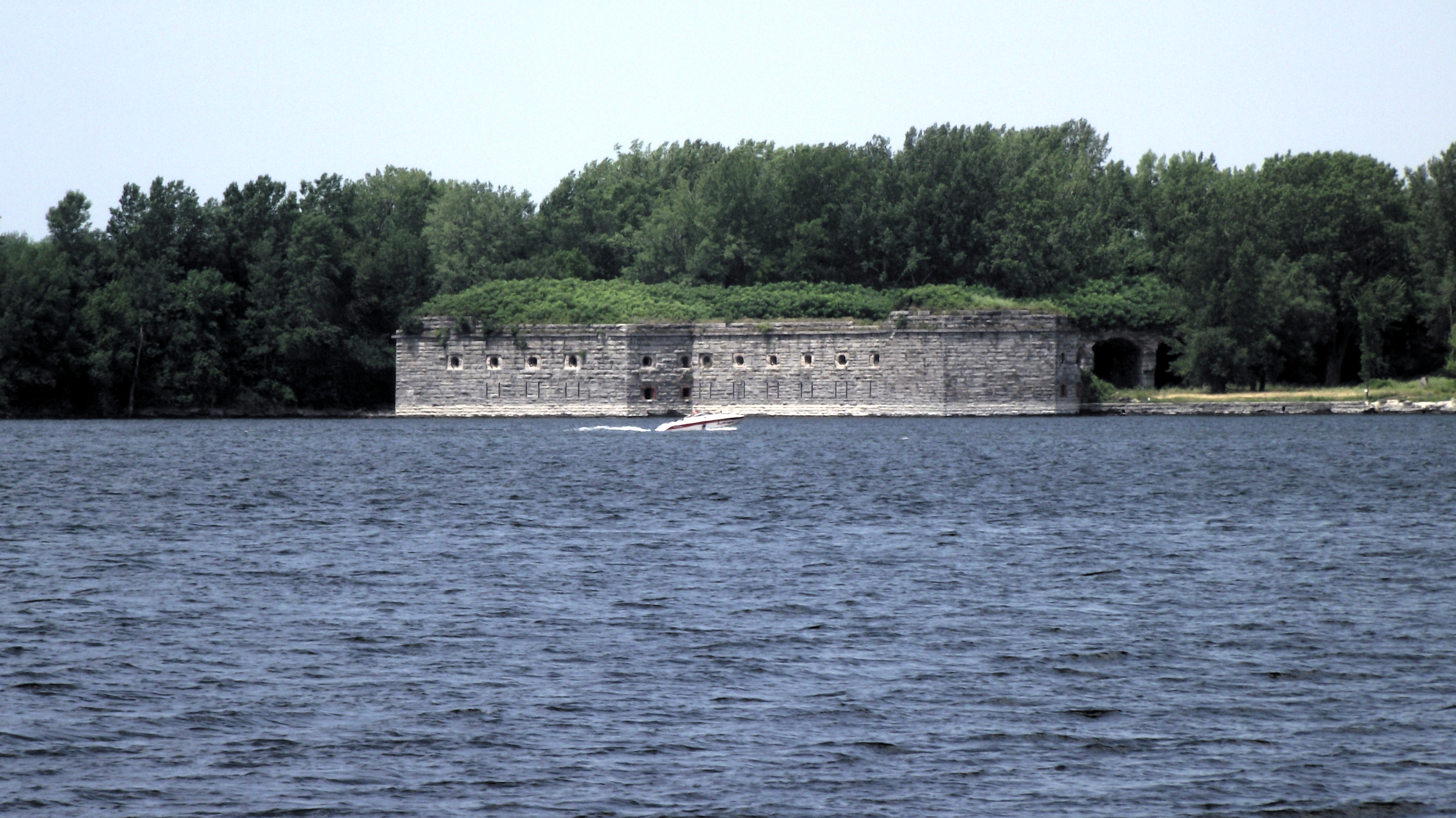 Fort Montgomery in Rouses Point, NY. Photo taken from a fishing access parking lot on the north side of the Rouses Point Bridge (US Route 2) in Vermont. Fort is .68 mile due NW of camera position.